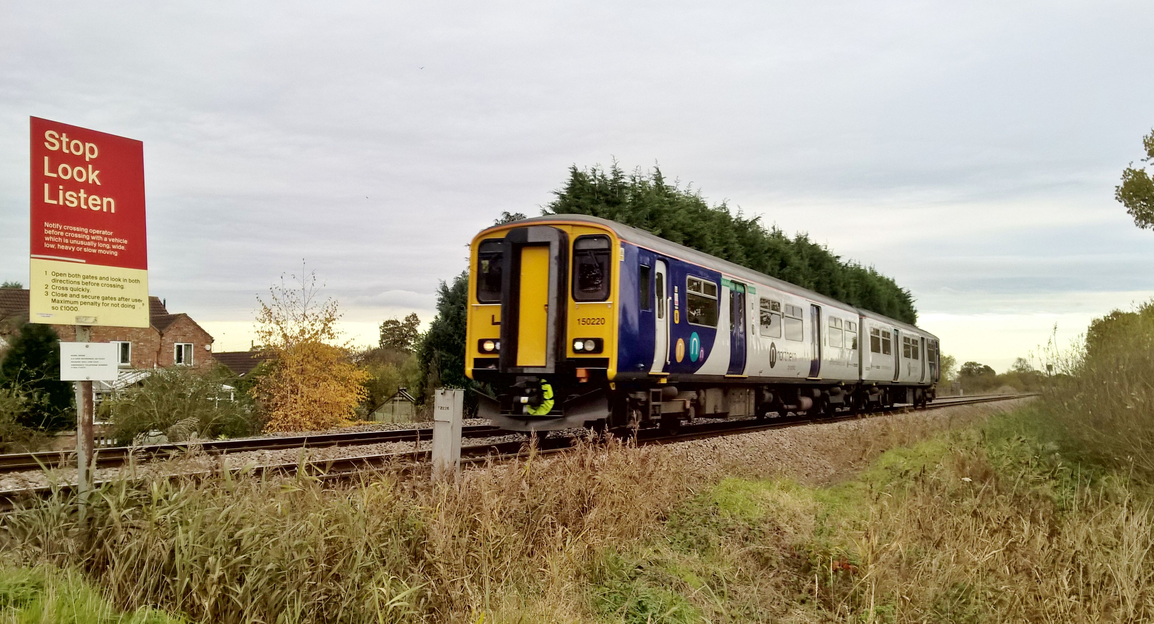 Northern Class 150/2 at Brind Crossing, Brind, East Riding of Yorkshire, England.Heading west.